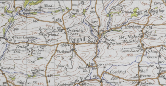 Older map of Poughill Civil Parish